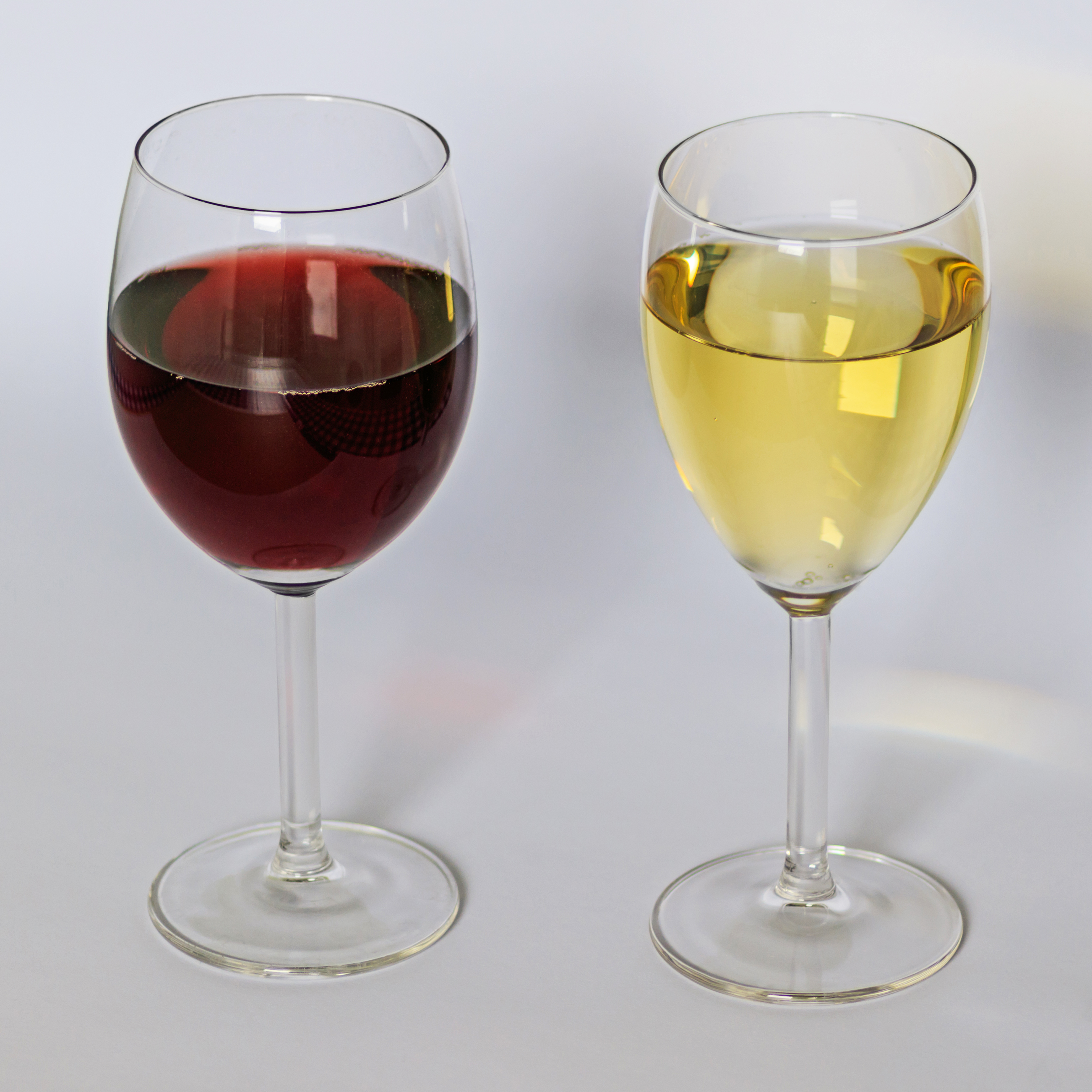 A glass of red wine (left) and a glass of white wine